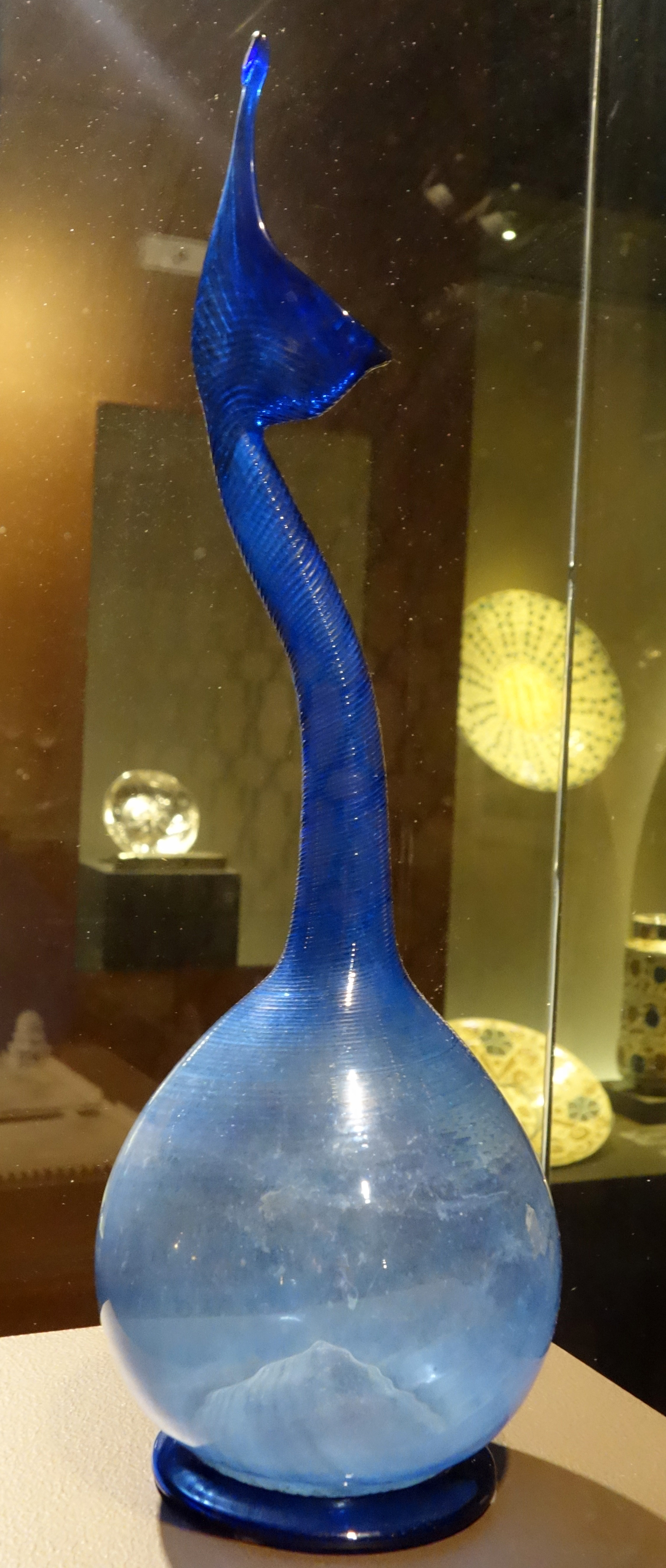 Swan-neck bottle (Persian: ashkdān, "container for tears"), mould-blown glass, 18th or 19th century, Iran (possibly Shiraz). Montreal Museum of Fine Arts, inv. no. 1963.Dg.1.